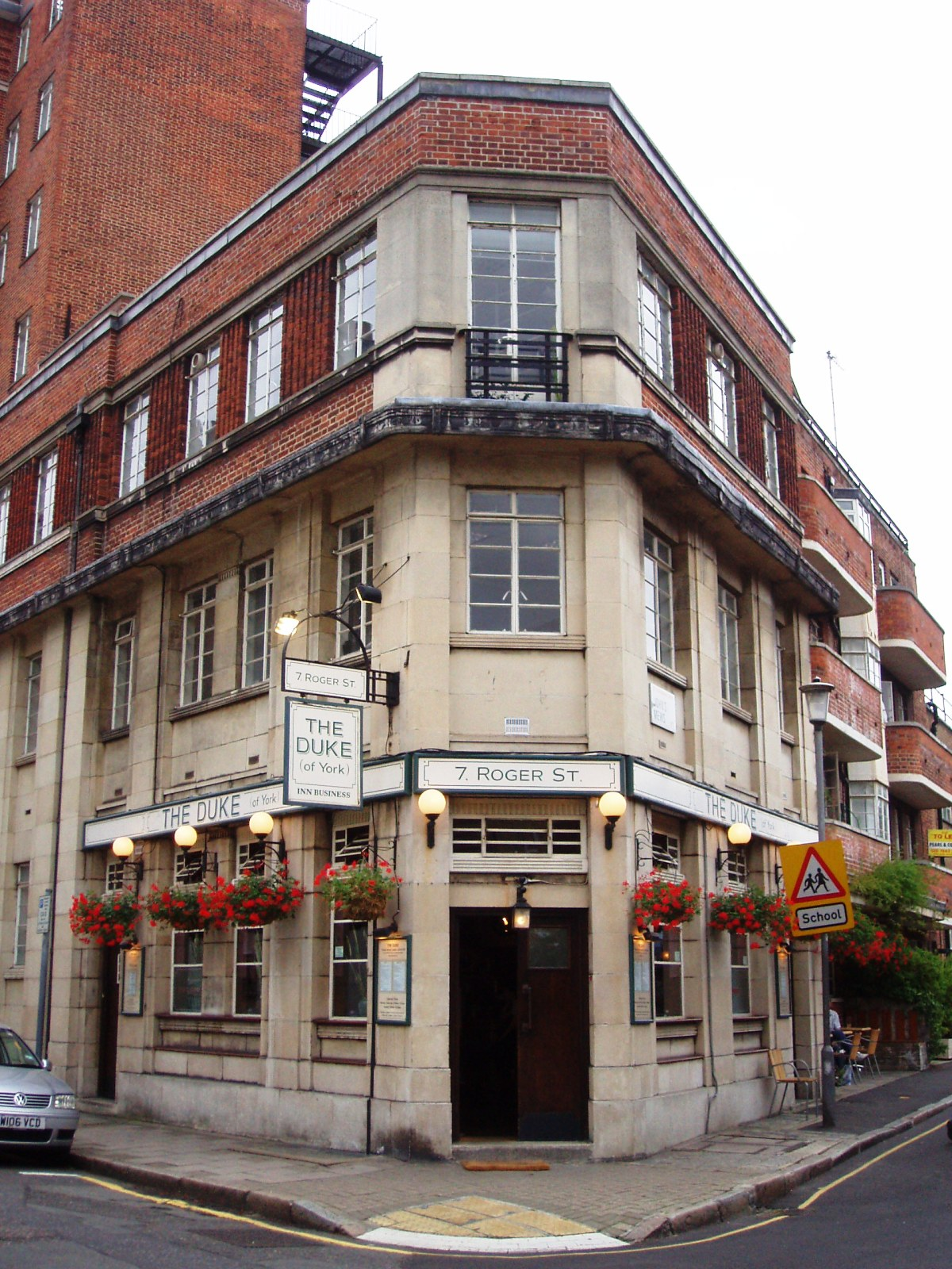 A pub hidden away down a back street, seems like a good place. Address: 7 Roger Street (formerly Henry Street). Former Name(s): The Duke of York. Owner: Punch Taverns; Taylor Walker (former). Links: Randomness Guide to London Fancyapint Beer in the Evening Dead Pubs (history) CAMRA National Inventory